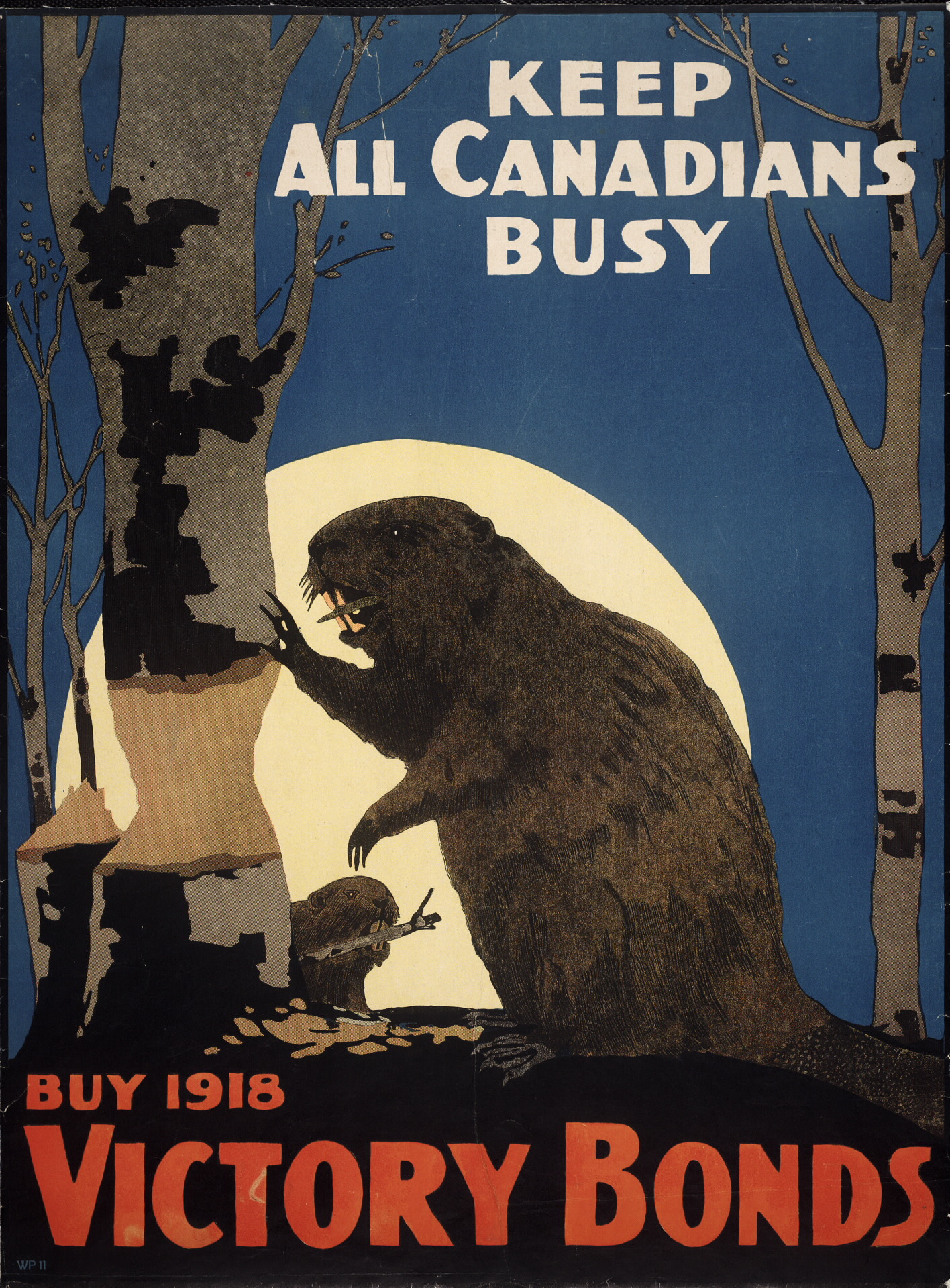 "Keep All Canadians Busy Buy 1918 Victory Bonds"; poster depicts a industrious beaver preparing to topple a tree.